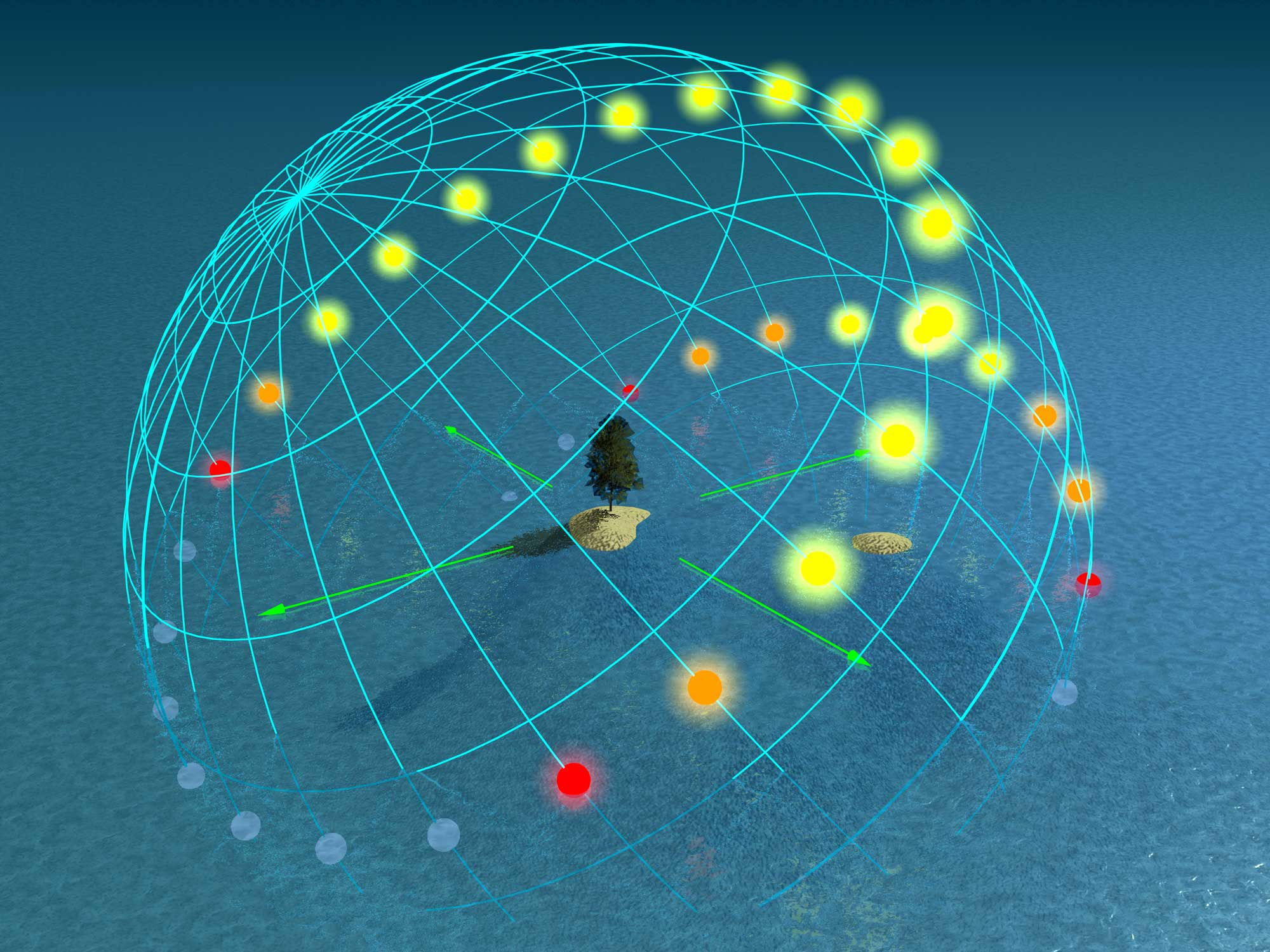 The day arc of the Sun, every hour, in the two solstices as seen on the celestial dome, from 50° latitude. Also showing 'twilight suns' down to -18° altitude. Note the 'grey nights' in summer.